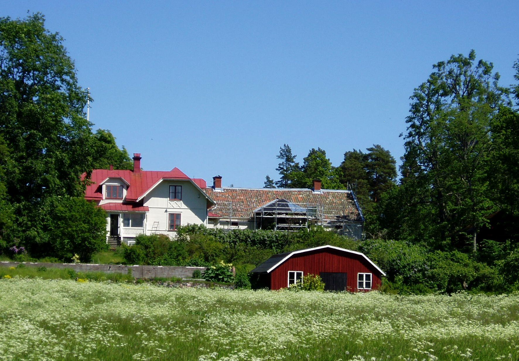 Väster Skägga mansion, Värmdö Municipality, Sweden